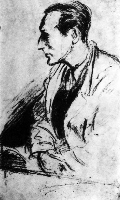 A Portrait of the Artist Bedrich Fritta - a watercolor by Peter Kien, an inmate in the Terezin (Theresienstadt) ghetto